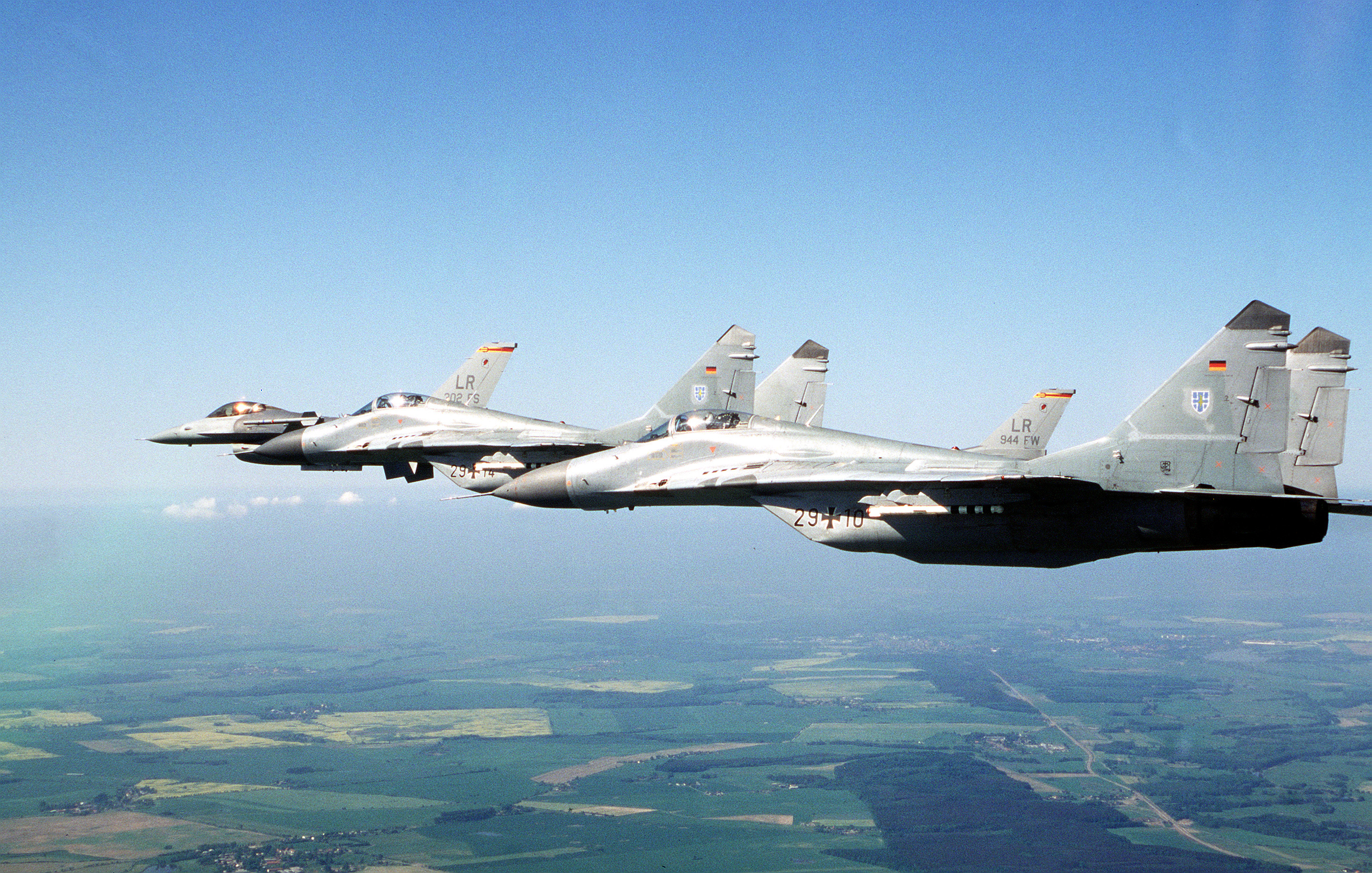 Two German Luftwaffe Mikoyan-Gurevich MiG-29A fighters and two U.S. Air Force Reserve General Dynamics F-16C Fighting Falcons flying in a fingertip formation near Karup air base, Denmark, on 5 June 1996. The MiG-29s in the foreground belonged to the "Jagdgeschwader 73 (JG 73)" (73rd Fighter Wing), based at Laage, Mecklenburg-Vorpommern, Germany. The F-16s were from the 302nd Fighter Squadron, 944th Fighter Wing, based at Luke Air Force Base, Arizona (USA).